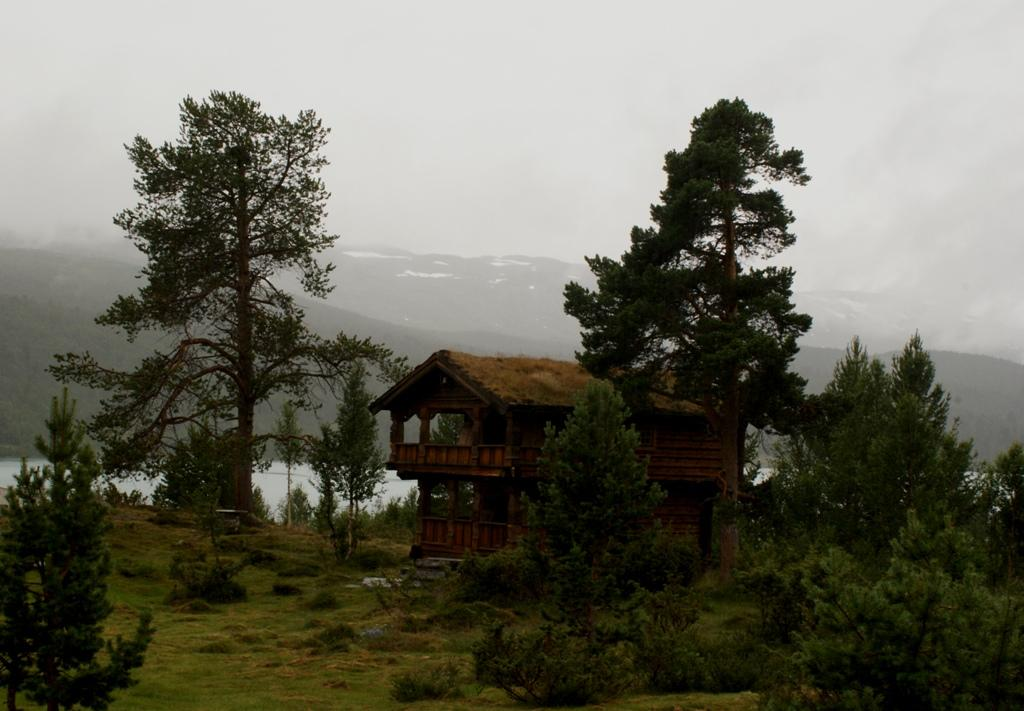 The typical Norwegian cottage (hytte) from Lom area (Oppland)